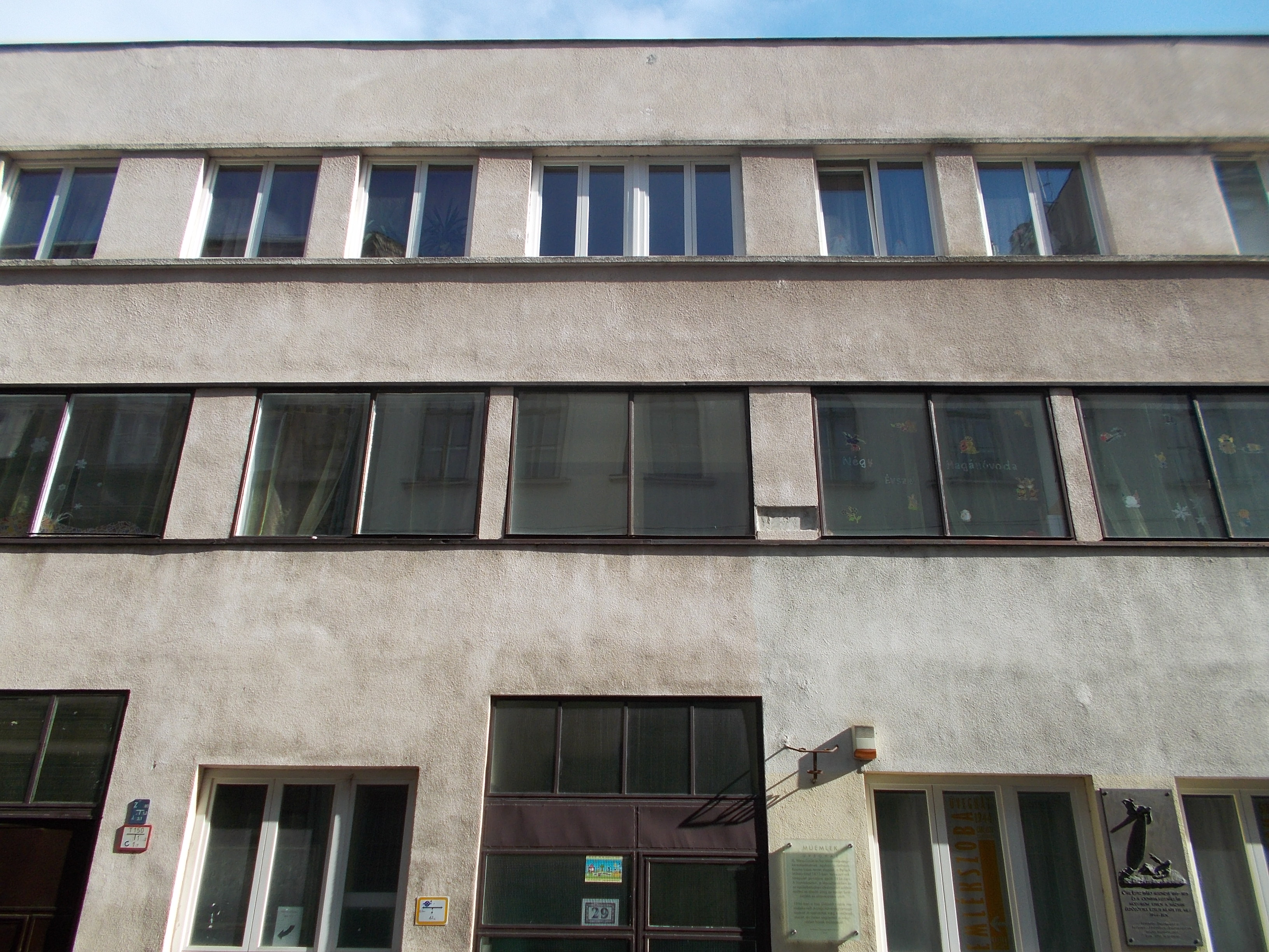 Glass House. Jewish refuge place under WWII. - 29 Vadász Street, Lipótváros neighbourhood, Budapest District V.